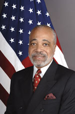 Incumbent United States Ambassador to the Marshall Islands, Clyde Bishop